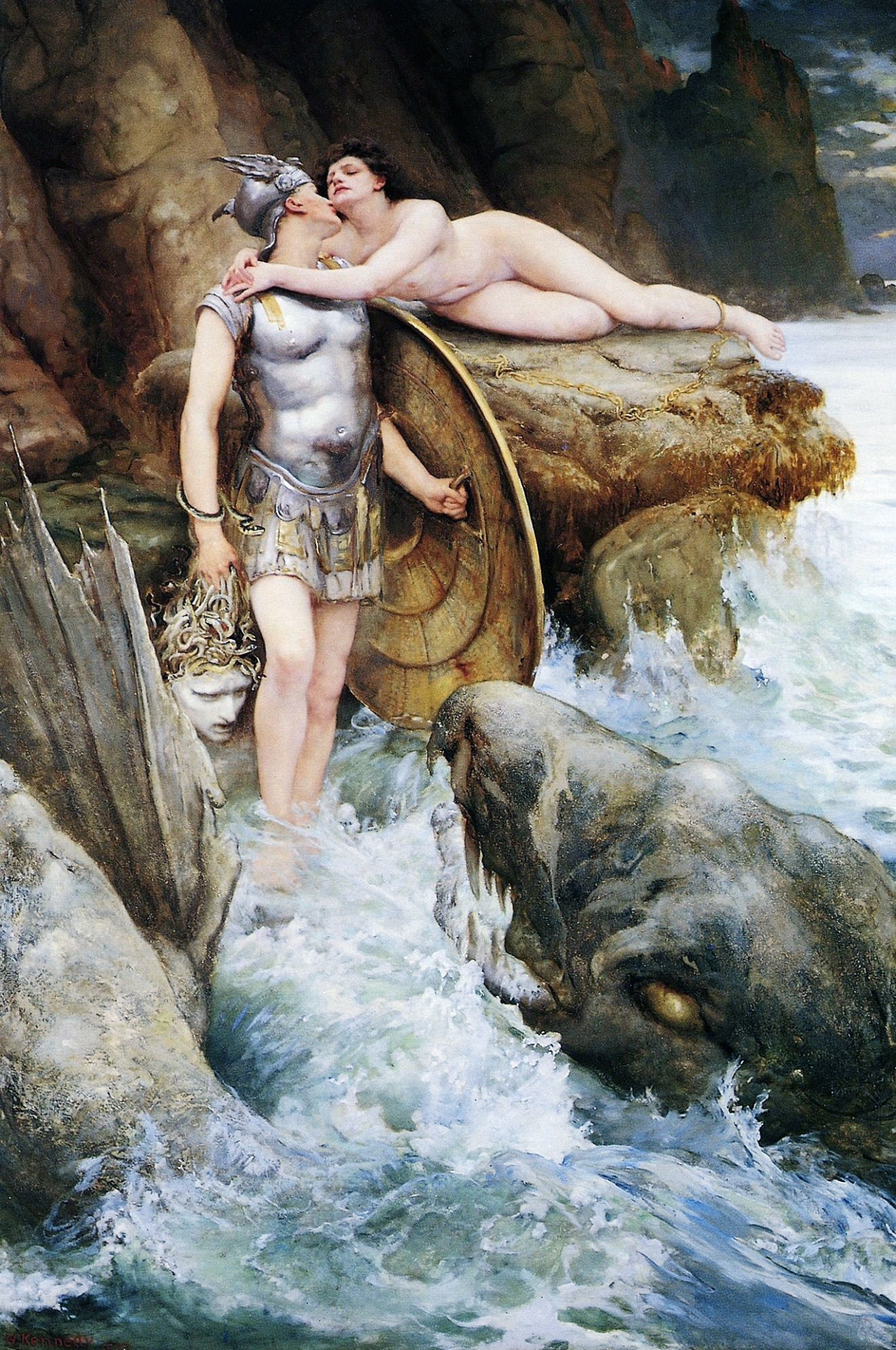 Depicted people: Perseus and Andromeda